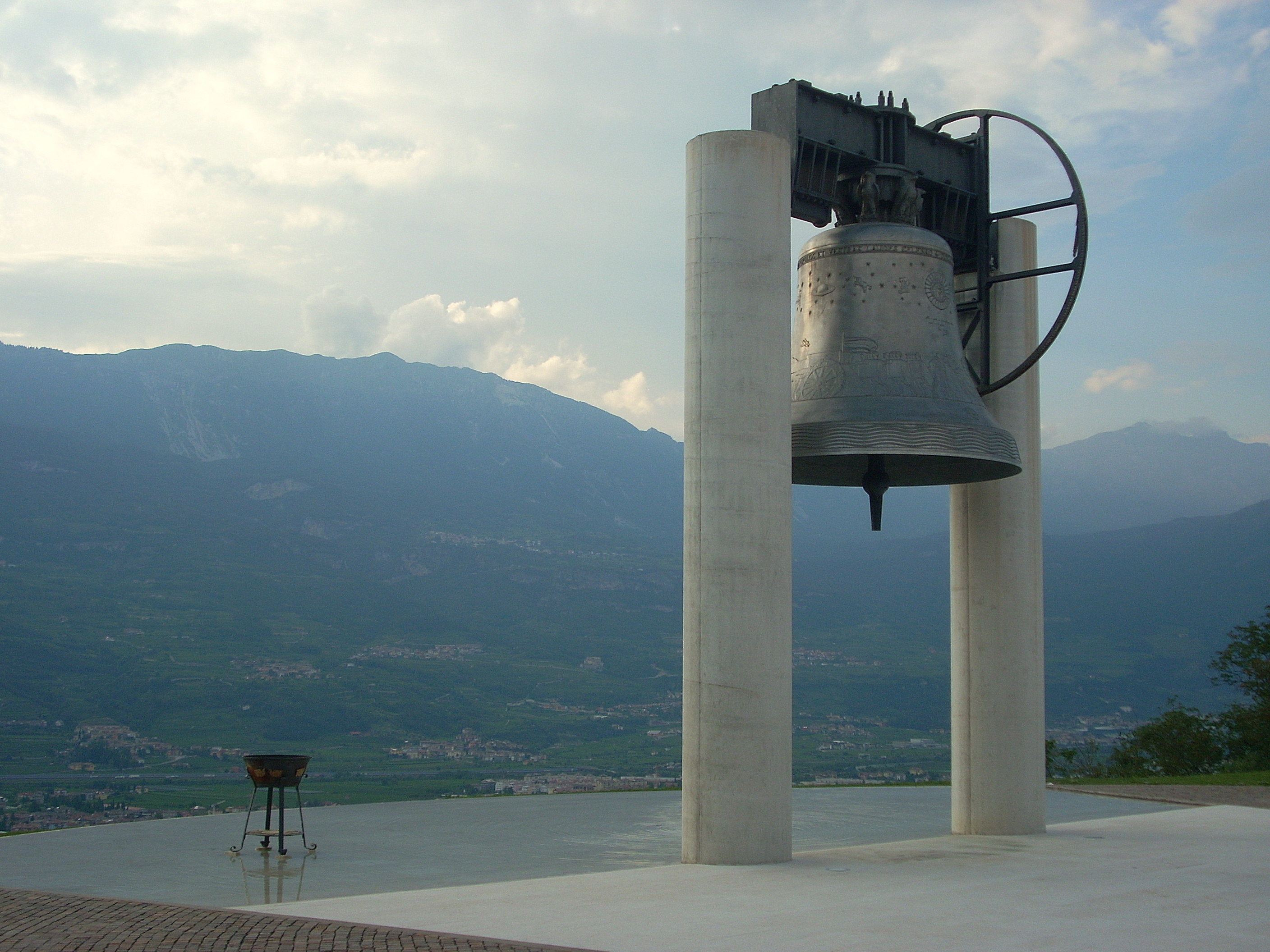 The Bell of the Fallen - Rovereto